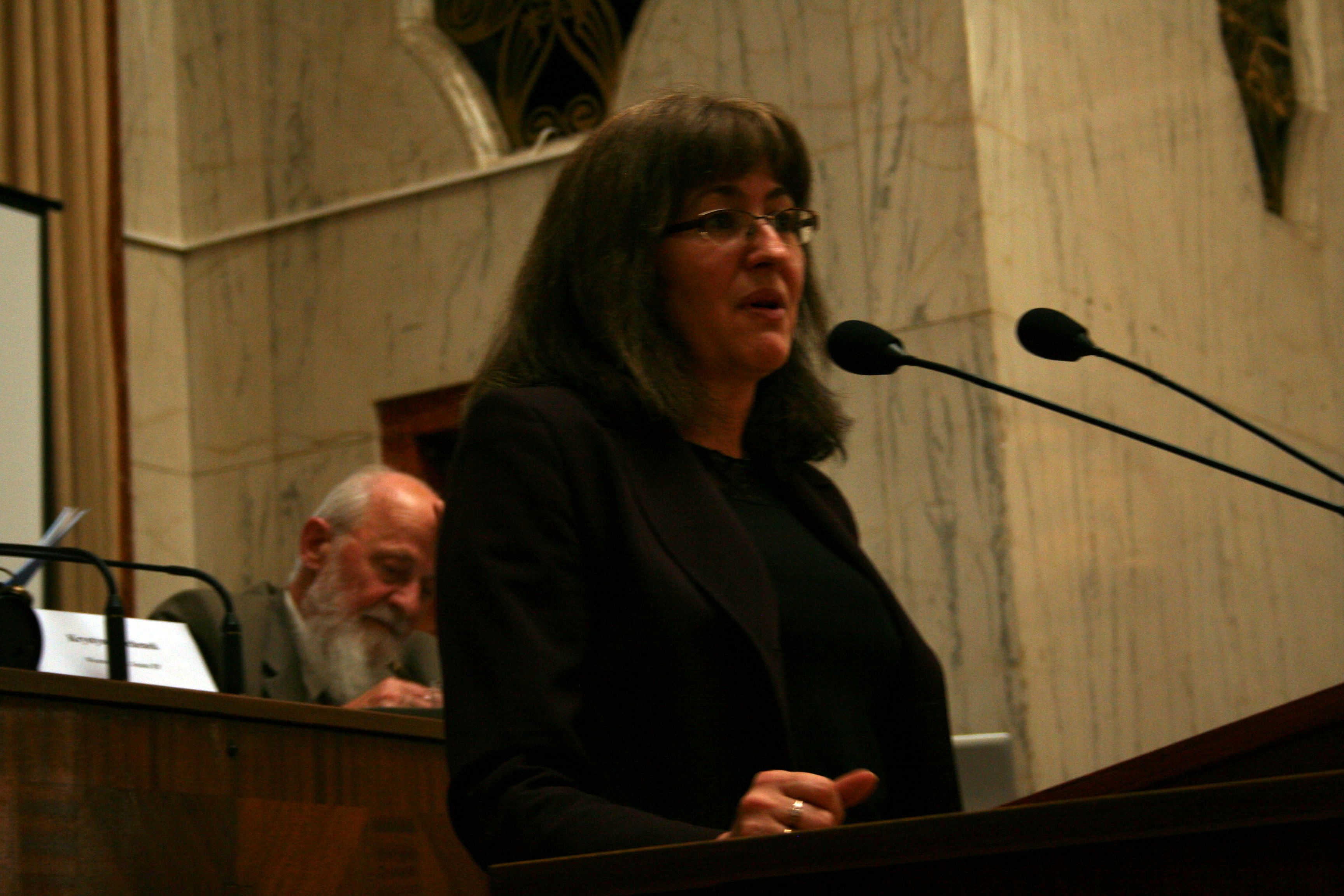 "Śląsko Godka" - Conference in Katowice